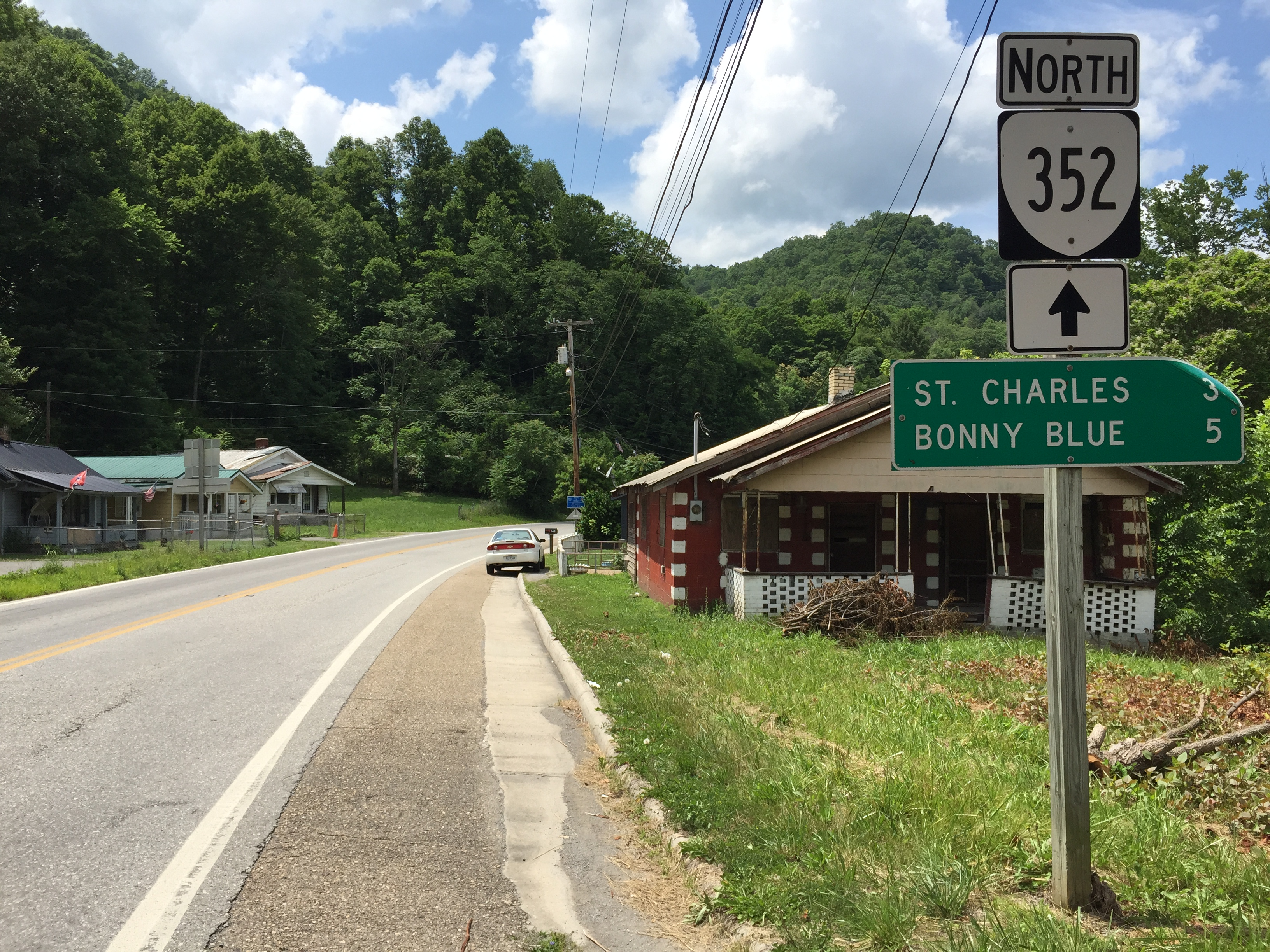 View north along Virginia State Route 352 at U.S. Route 421 in Stone Creek, Lee County, Virginia